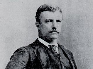 Theodore Roosevelt, 26th US President, as New York City Police Commissioner, 1895.